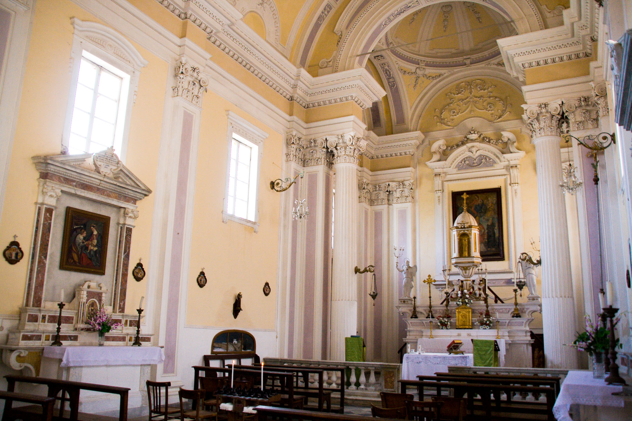 Elba, Poggio (Marciana). Interior of San Defendente Church.